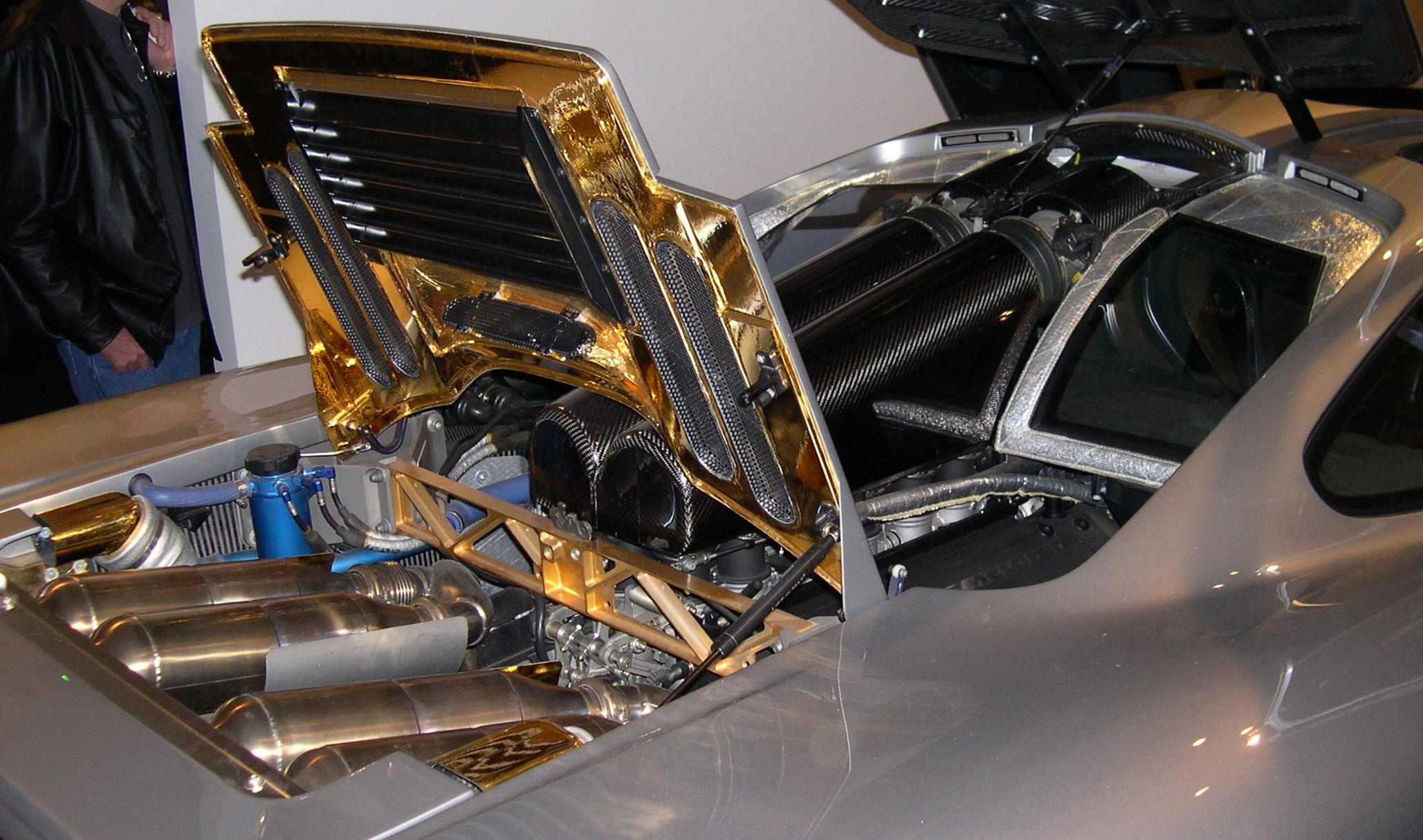 1996 McLaren F1 From the Ralph Lauren collection on display at the Boston Museum of Fine Arts. Photo taken in 2005. Source: Photo by User:Sfoskett